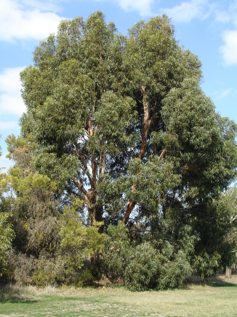 Eucalyptus cordata HelloMojo 04:53, 15 April 2007 (UTC) Bayswater, Vic